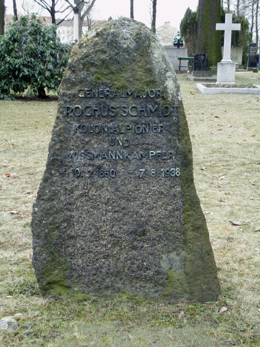 Grave of Rochus Schmidt